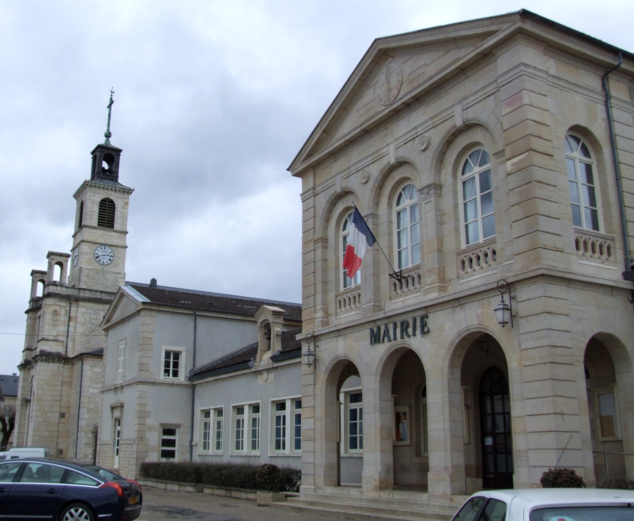 Brazey-en-Plaine, Burgundy, FRANCE